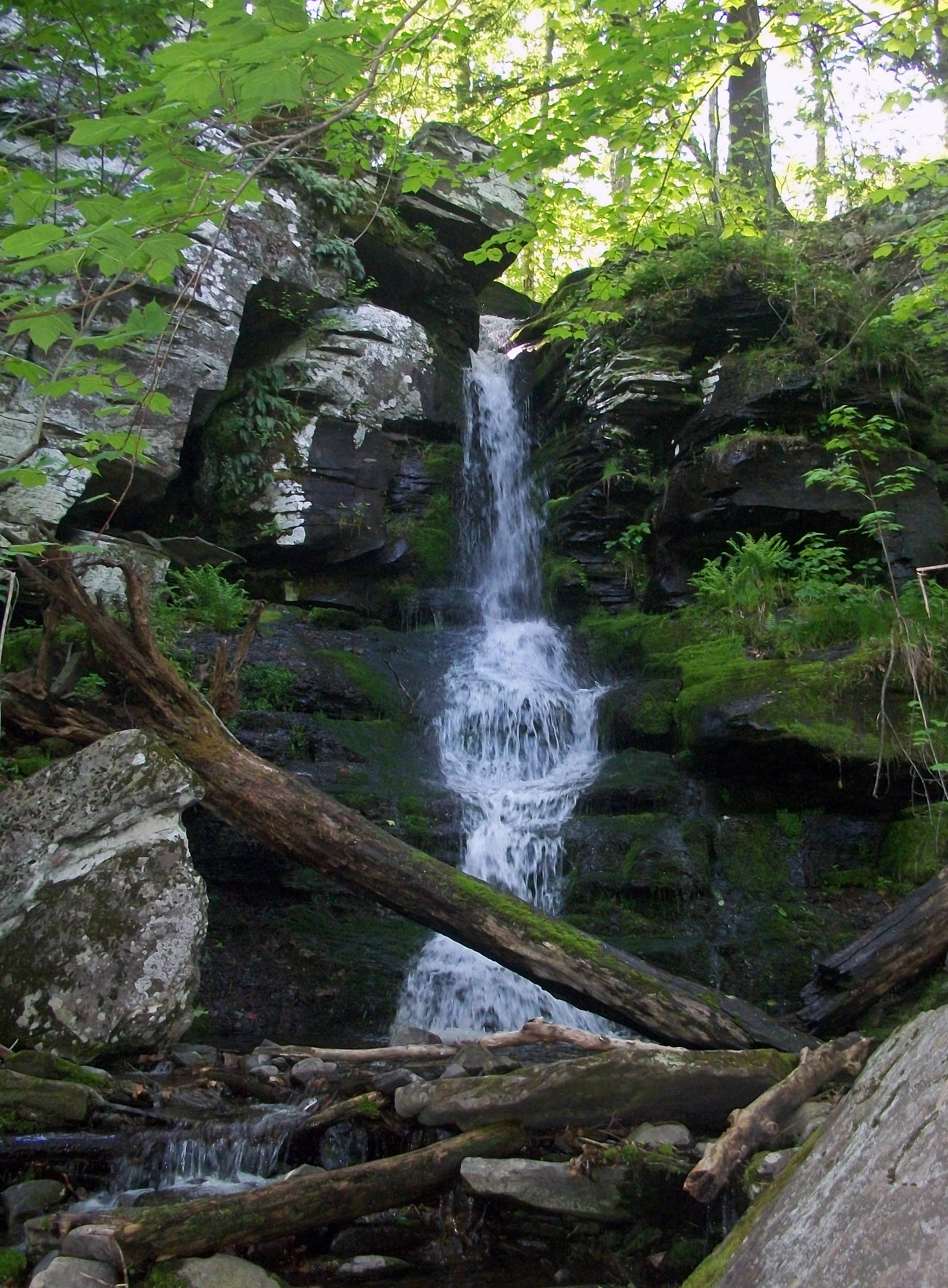 Waterfall on upper tributary of Bushnellsville Creek at parking lot near base of Halcott Mountain along NY 42 in the Catskill Mountains of New York